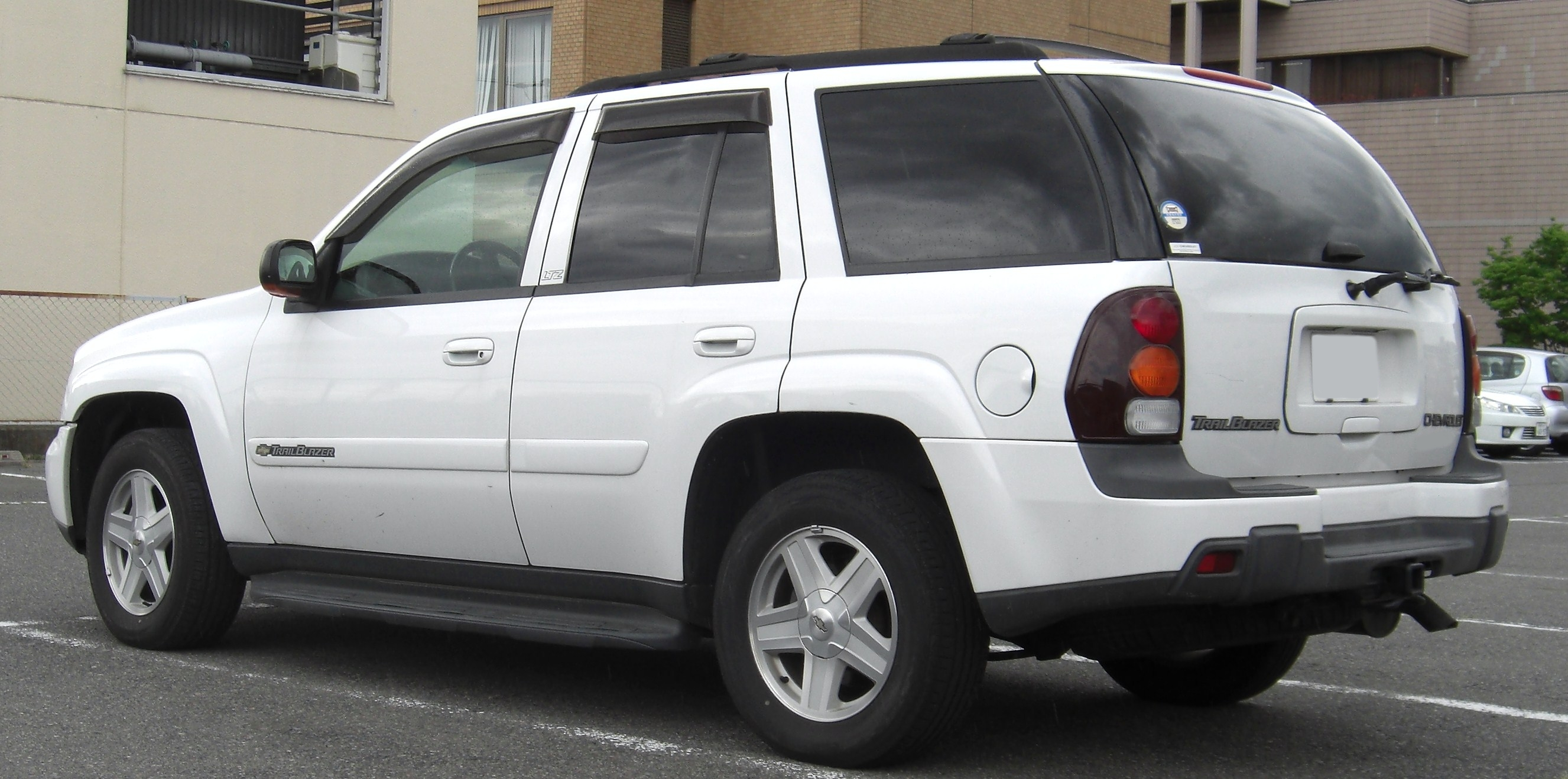 Chevrolet TrailBlazer in Japan